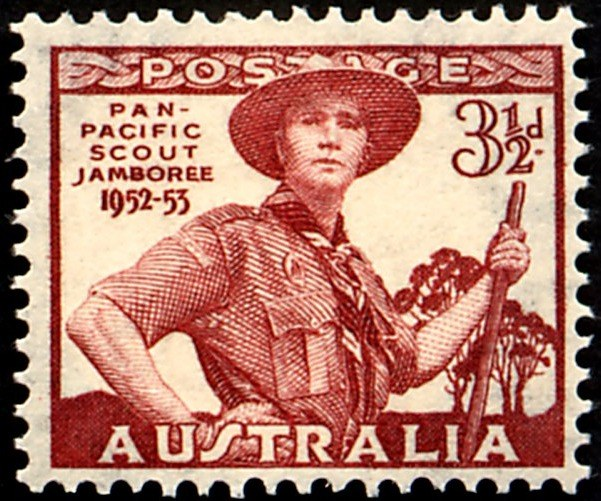 A postage stamp of Australia issued 1952